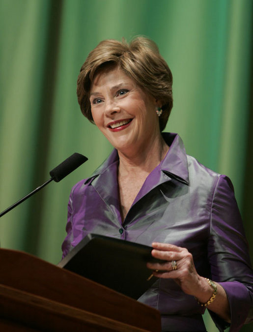 Mrs. Laura Bush welcomes guests to the 2006 National Book Festival Gala, an annual event of books and literature, Friday evening, Sept. 29, 2006 at the Library of Congress in Washington, D.C. White House photo by Paul Morse